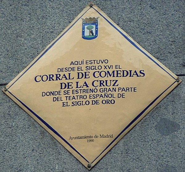 Street sign of Corral de Comedias de la Cruz, in Madrid (Spain)